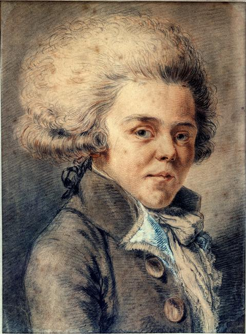 Portrait of Antoine Rivarol (1753-1801)